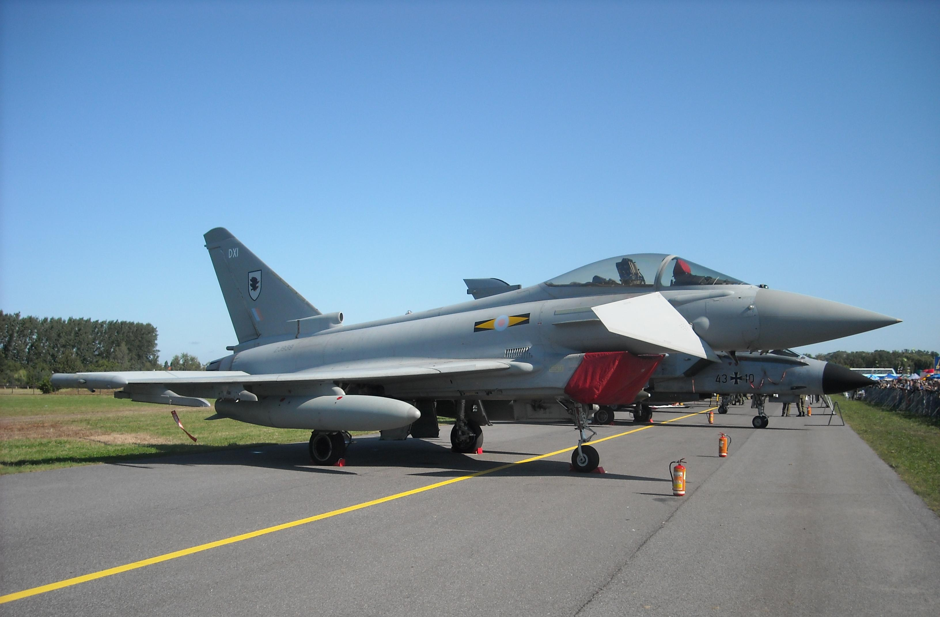 Eurofighter Typhoon of the Royal Air Force from Coningsby AFB seen on static display at Radom-Sadków during Air Show 2009.